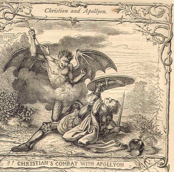 Christian's Combat With Apollyon